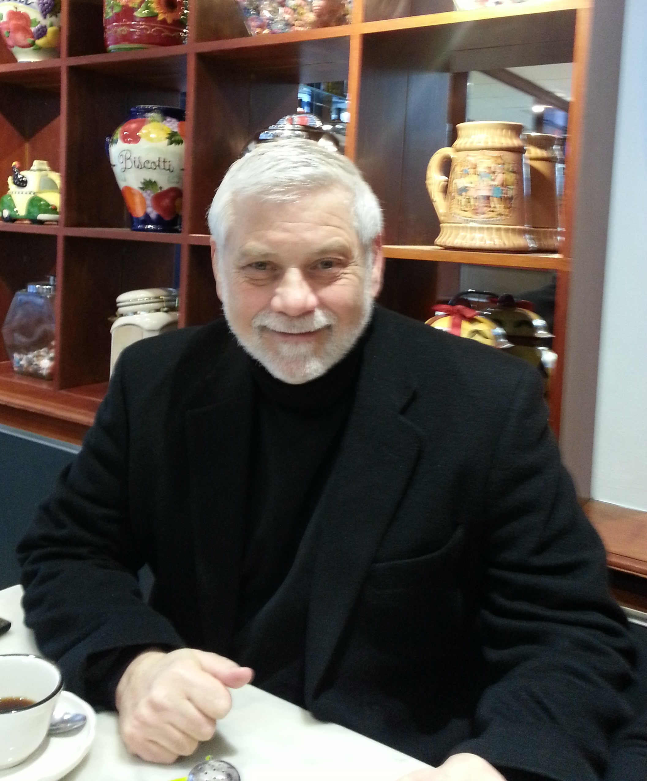 Edwin Black in Manhattan